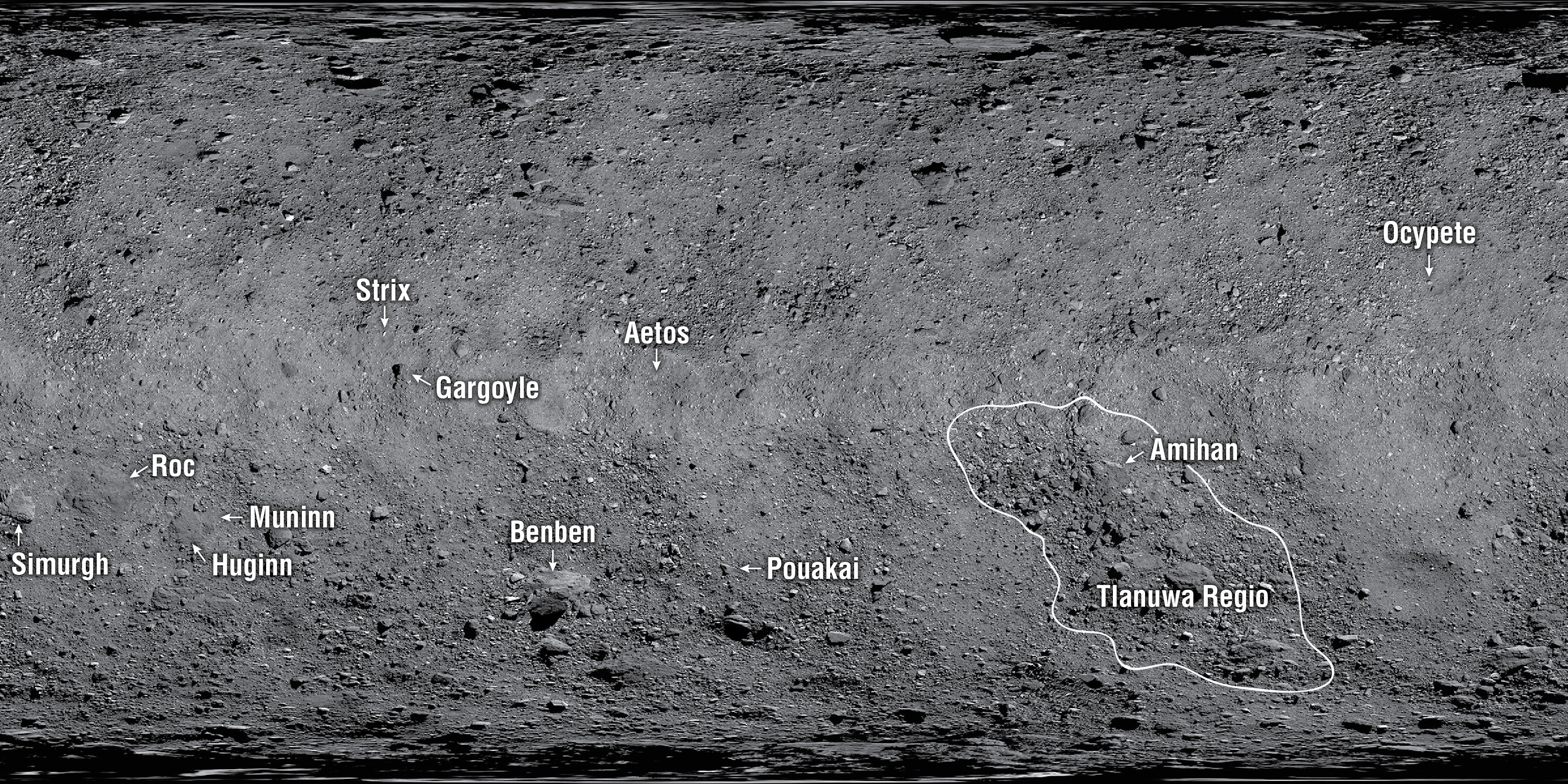 This flat projection mosaic of asteroid Bennu shows the locations of the first 12 surface features to receive official names from the International Astronomical Union. The accepted names were proposed by NASA’s OSIRIS-REx team members, who have been mapping the asteroid in detail over the last year. Bennu’s surface features are named after birds and bird-like creatures in mythology, and the places associated with them. Instrument Used: OCAMS (PolyCam)